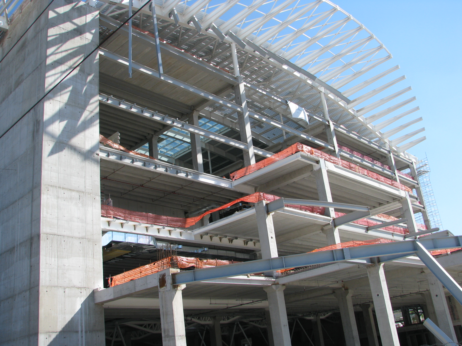 Ankara High Speed Train Station Construction Site, 2015